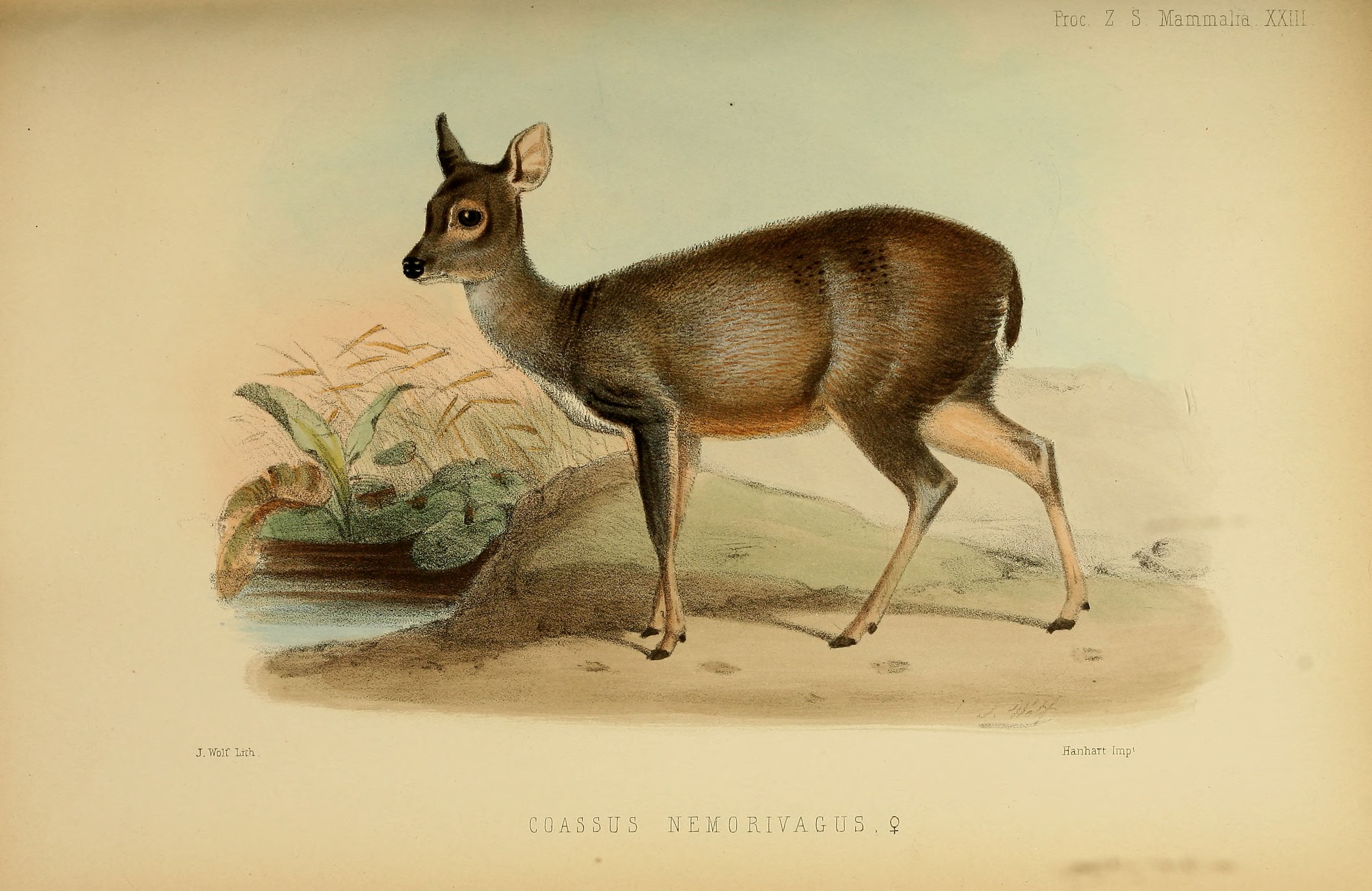 Amazonian Brown Brocket doe from Knowsley Hall menagerie, 1850